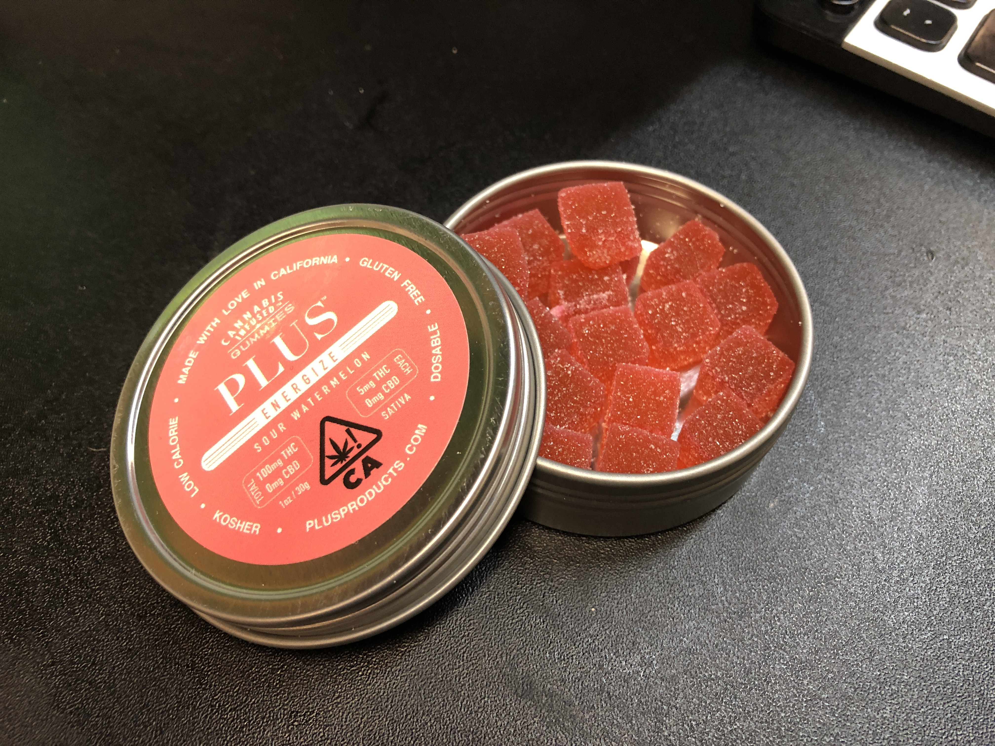 cannabis infused gummies/candy